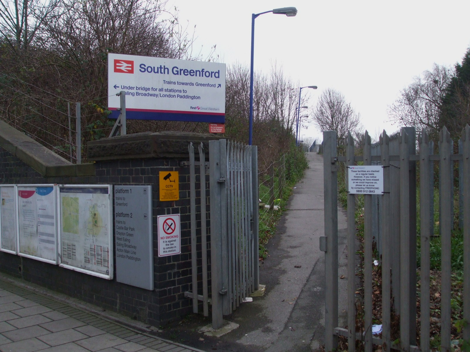 South Greenford station western entrance, on the northbound side